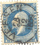 Norways second stamp. 4 Skilling postage, issued on December 12, 1856. Catalog no: NK 4A (Blue in nuances). The portrait is King Oscar I (ruled 1844-1859). The stamp is postmarked «VEFSEN 28-12 1859». Scanned with a HP Scanjet 4470c scanner.